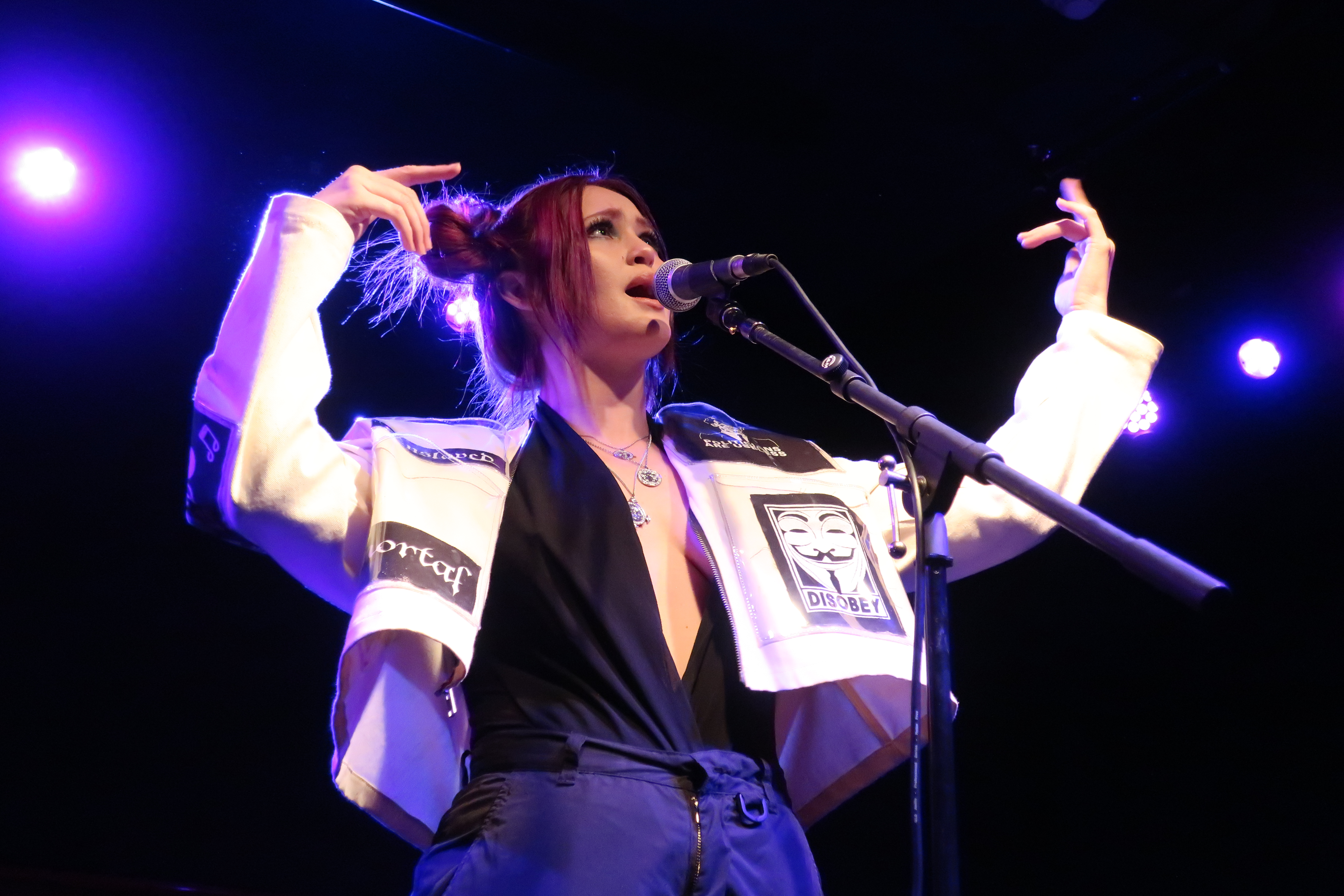 Elley Duhé performing at Schubas Tavern in Chicago on January 27, 2019.